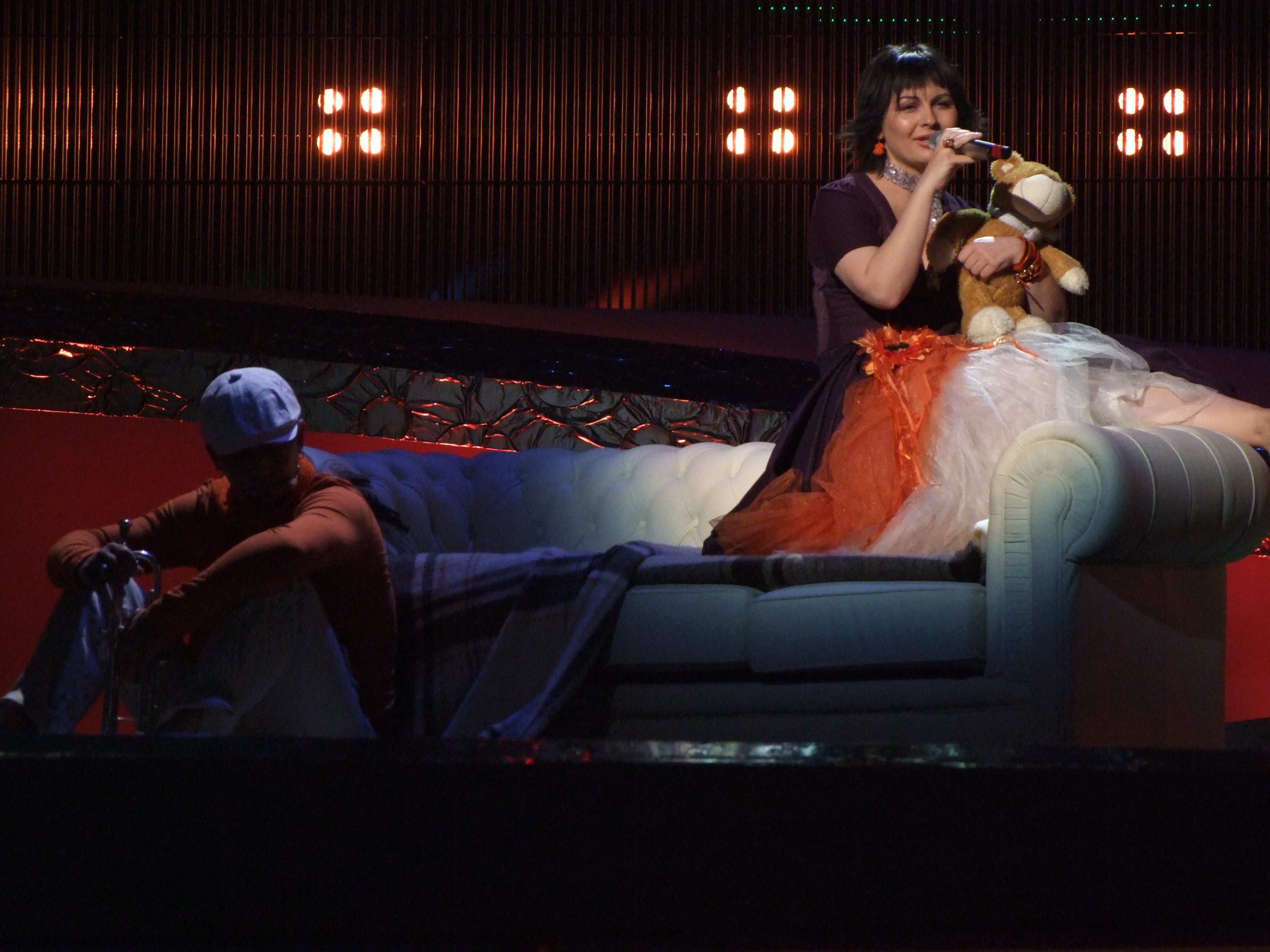 Eurovision Song Contest 2008, 1st semifinal Moldova: Geta Burlacu - Century of love